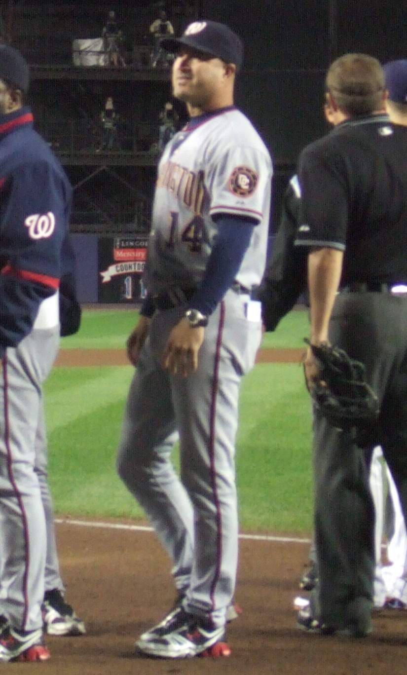 Professional baseball manager Manny Acta of the Washington Nationals, in Shea Stadium, 2008-09-10